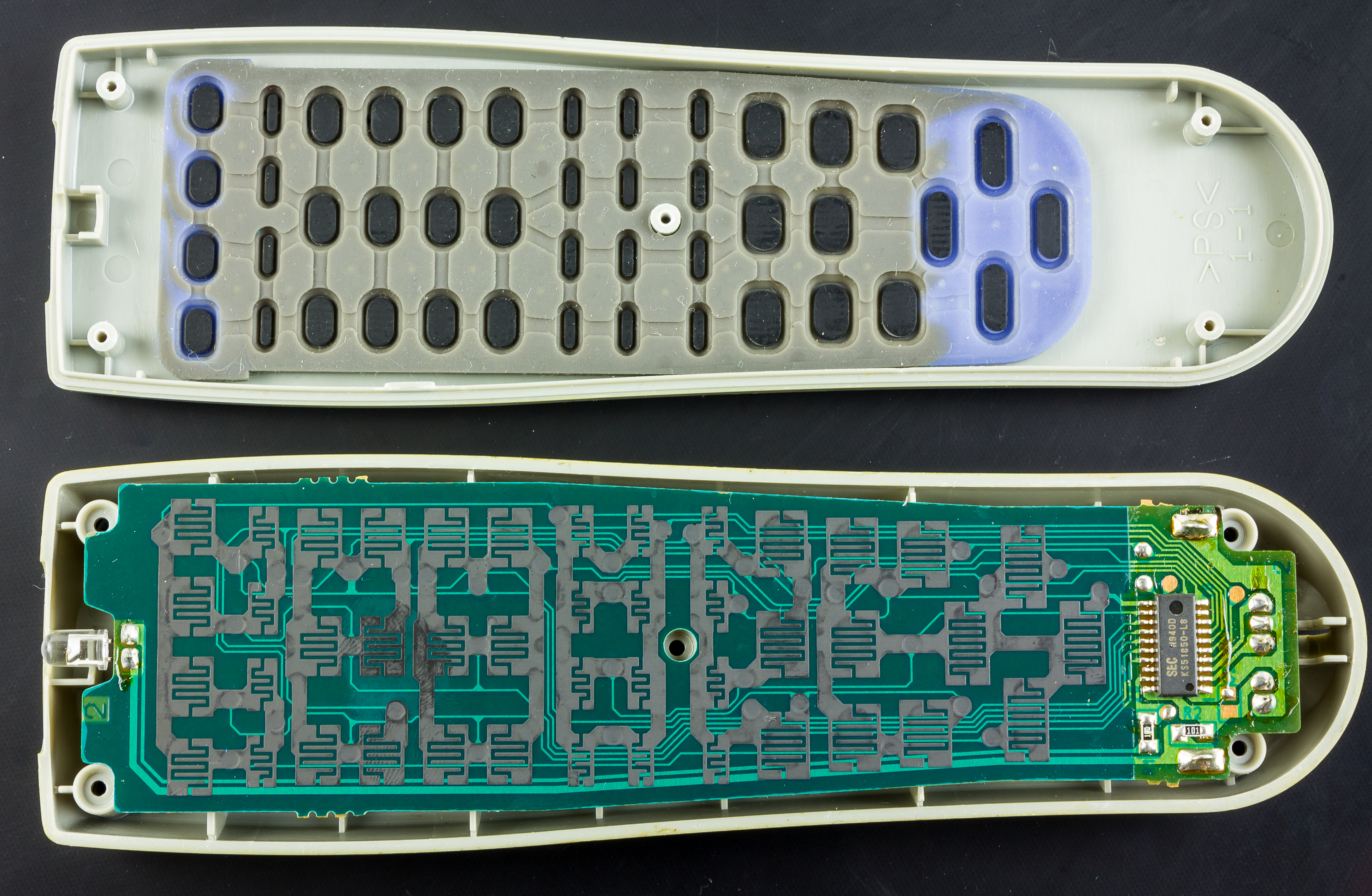 JVC RM-SMXJ950R Remote Controller - case opened